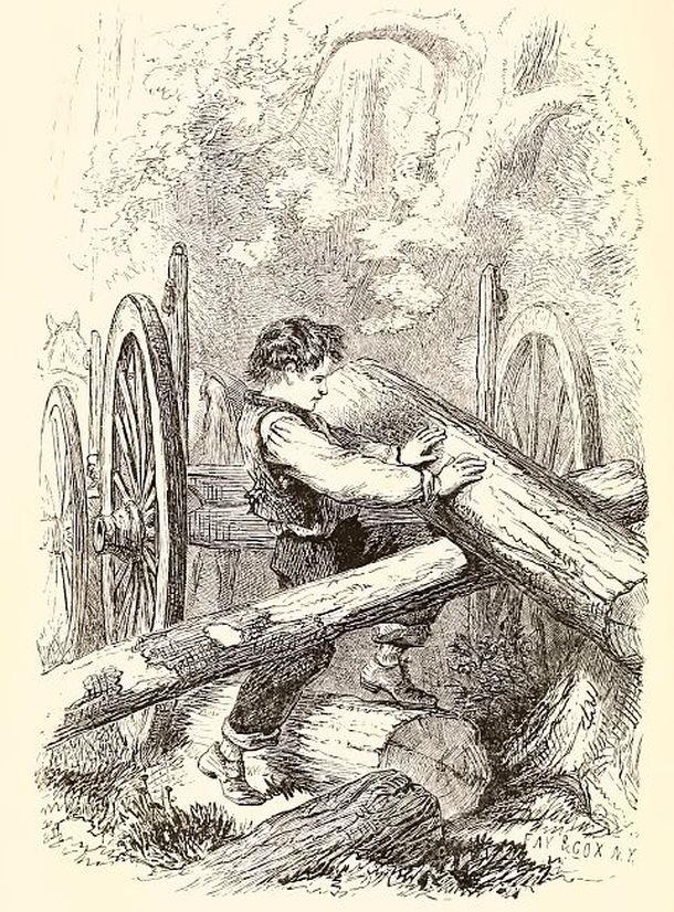 Engraving: Grant loading wagon using horses, taken from book: Headley, 1866